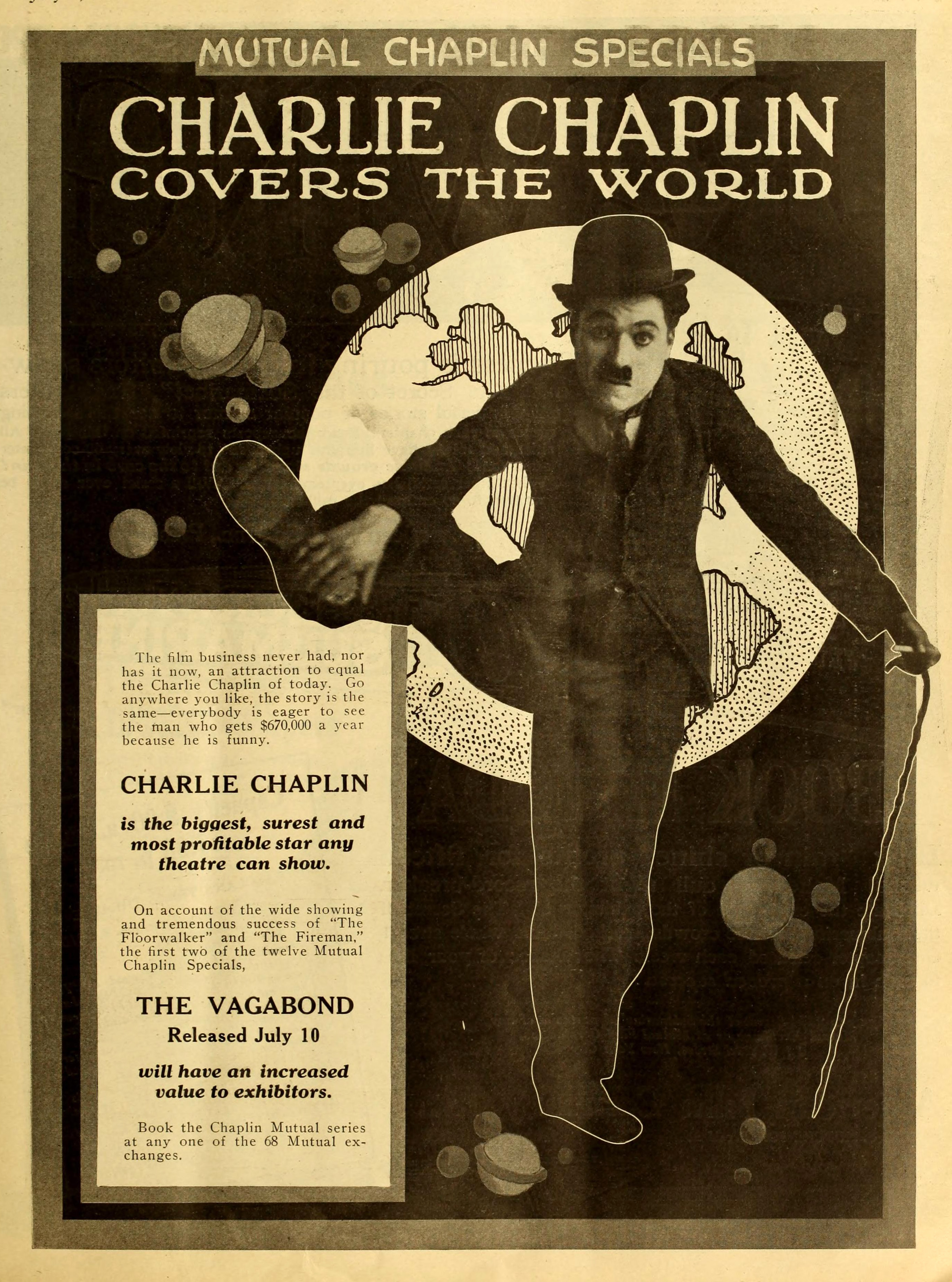 Advertisement in The Moving Picture World